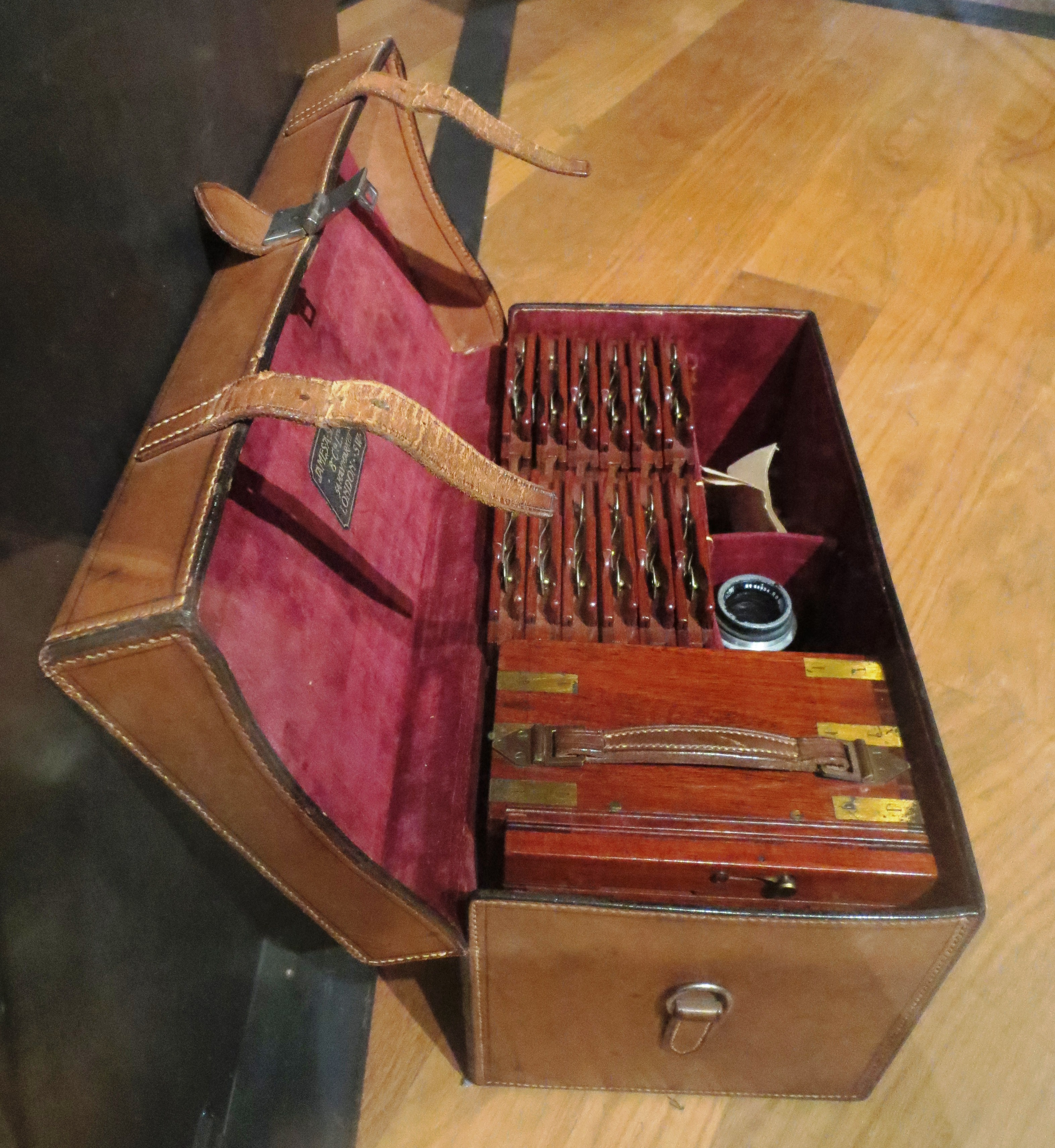 FM camera which belonged to the famous explorer Carl Lumholtz. Display in the Preus Photography Museum in Horten, Norway.